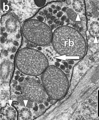 Electron micrographs of sperm of Convoluta niphoni (Convolutidae) with axial microtubules (white arrow) and axonemes without central microtubules (white arrowheads). Abbreviation: rb refractive body. Scale bars: b 0.5 μm.